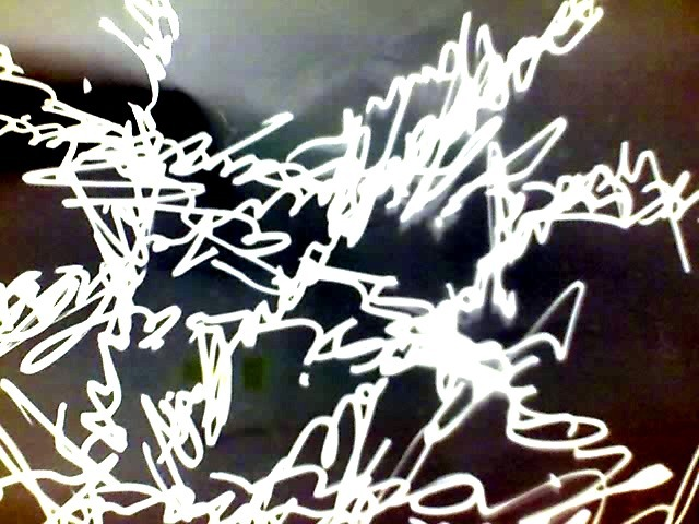 Visual piece by Marco Giovenale